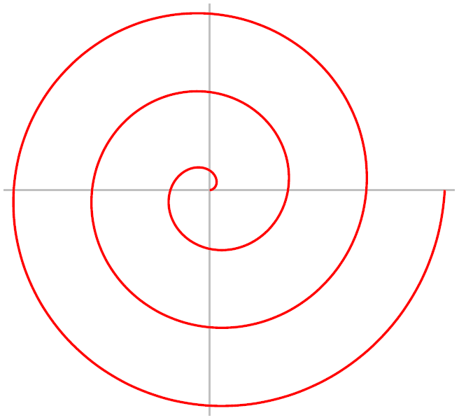 Three 360° turnings of one arm of an Archimedean spiral.